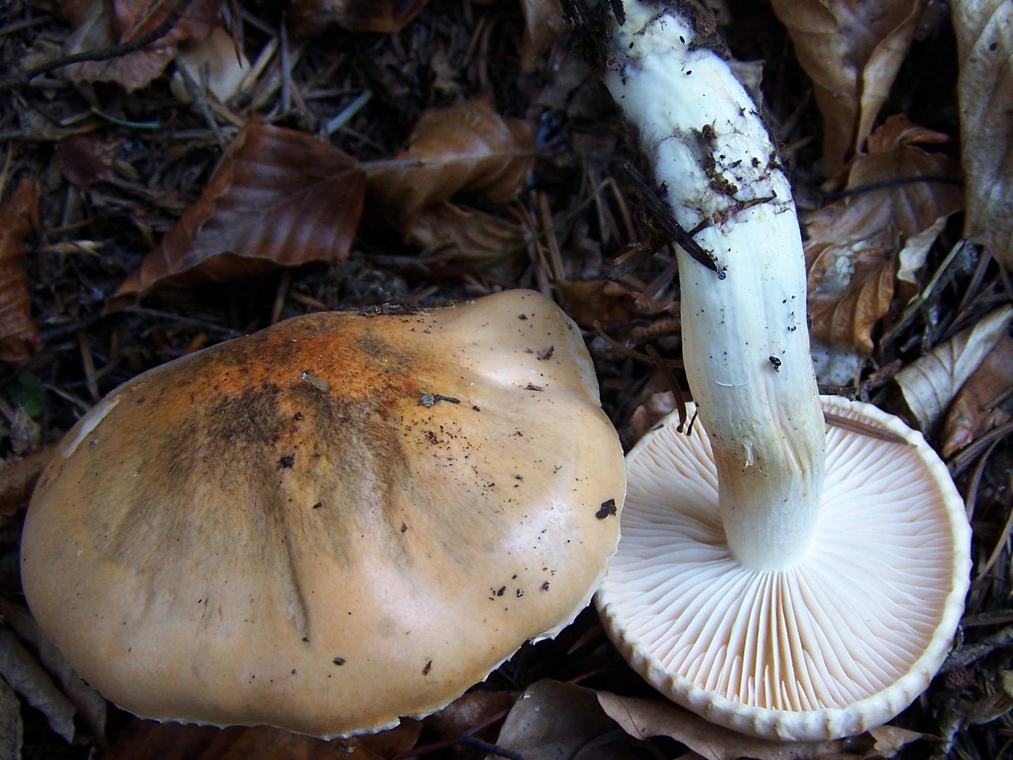 Lepista irina (location: Poland, Pieniny)